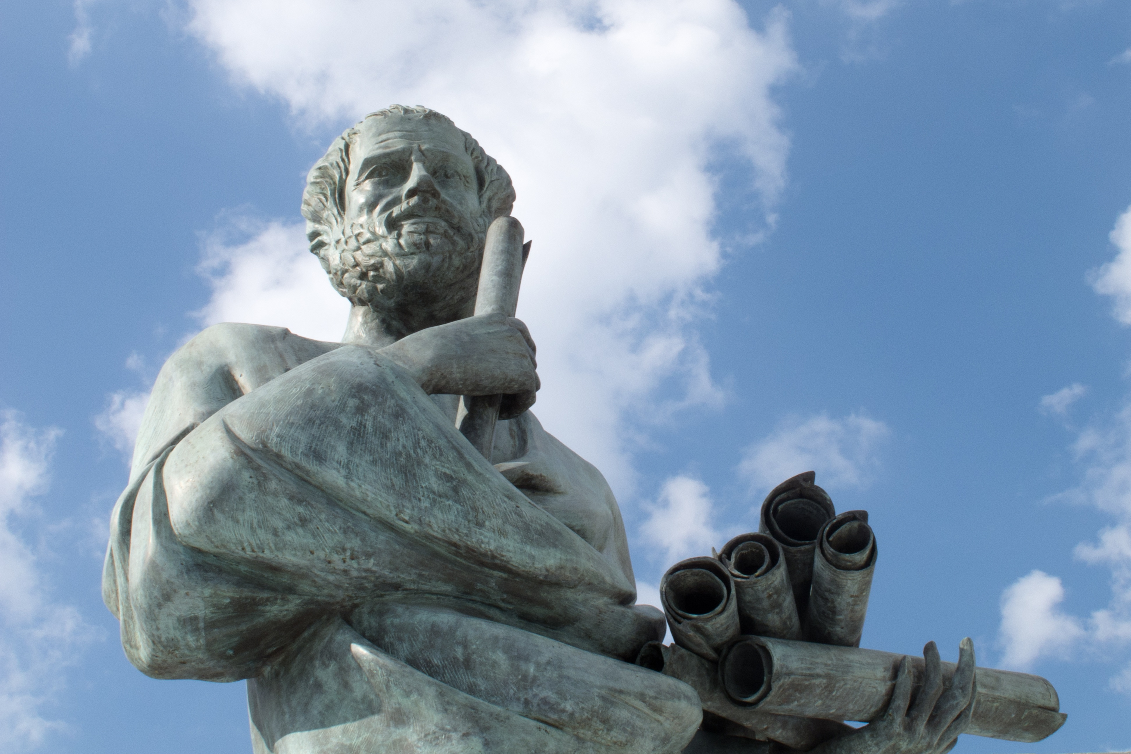 Aristotle (384-322 BC) Statue at the Aristotle University of Thessaloniki, Greece.